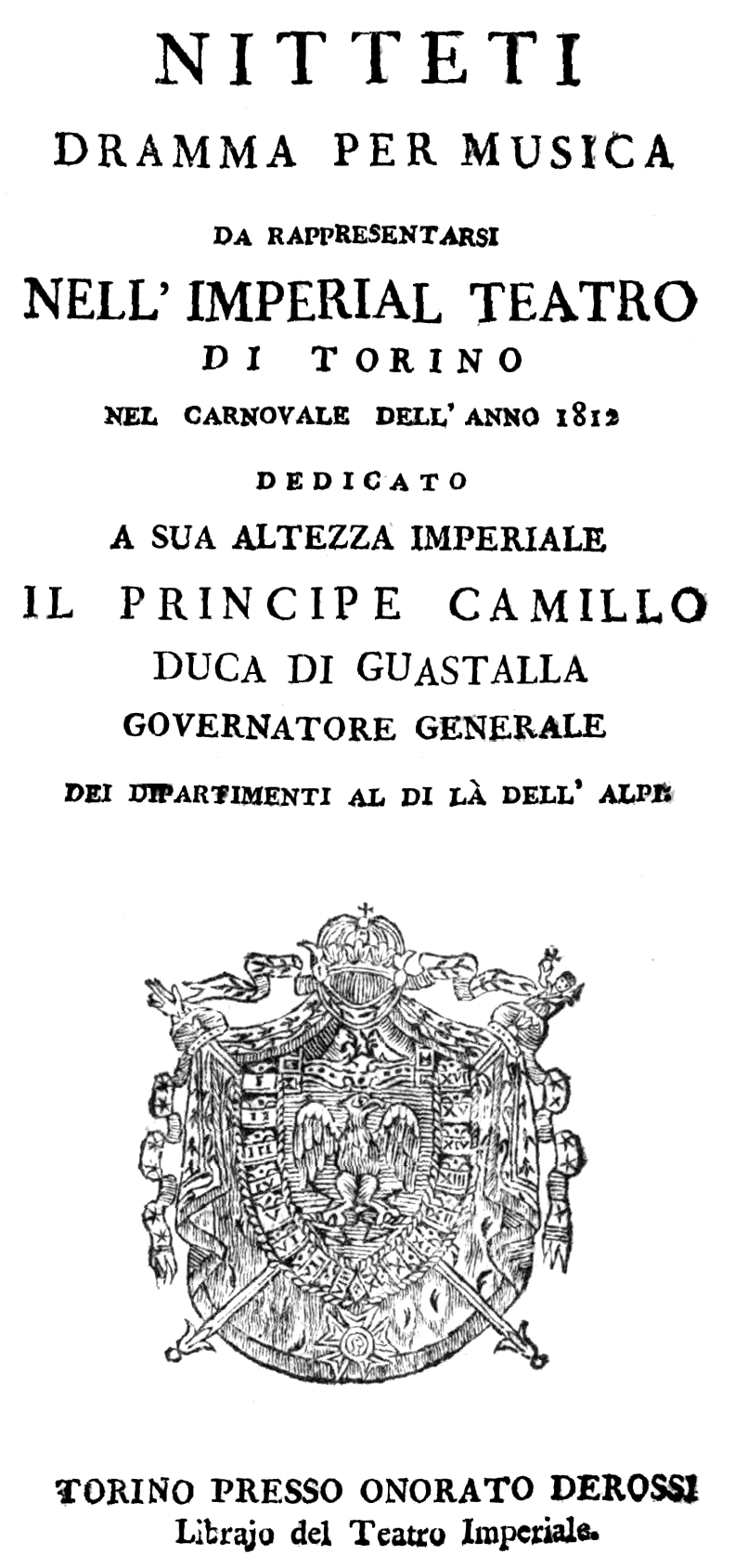 Stefano Pavesi - Nitteti - titlepage of the libretto - Turin 1812